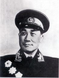 Zhang Guohua (张国华, October 1914 – February 21, 1972), People's Liberation Army field commander during the Sino-Indian war, Chinese team negotiator for the Seventeen Point Agreement for the Peaceful Liberation of Tibet, and the first Communist Party secretary for Tibet receives the military rank of lieutenant general.